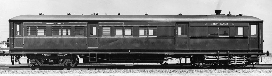 photograph Victorian Railways short lived Kerr Stuart steam railmotor circa 1913.[1]